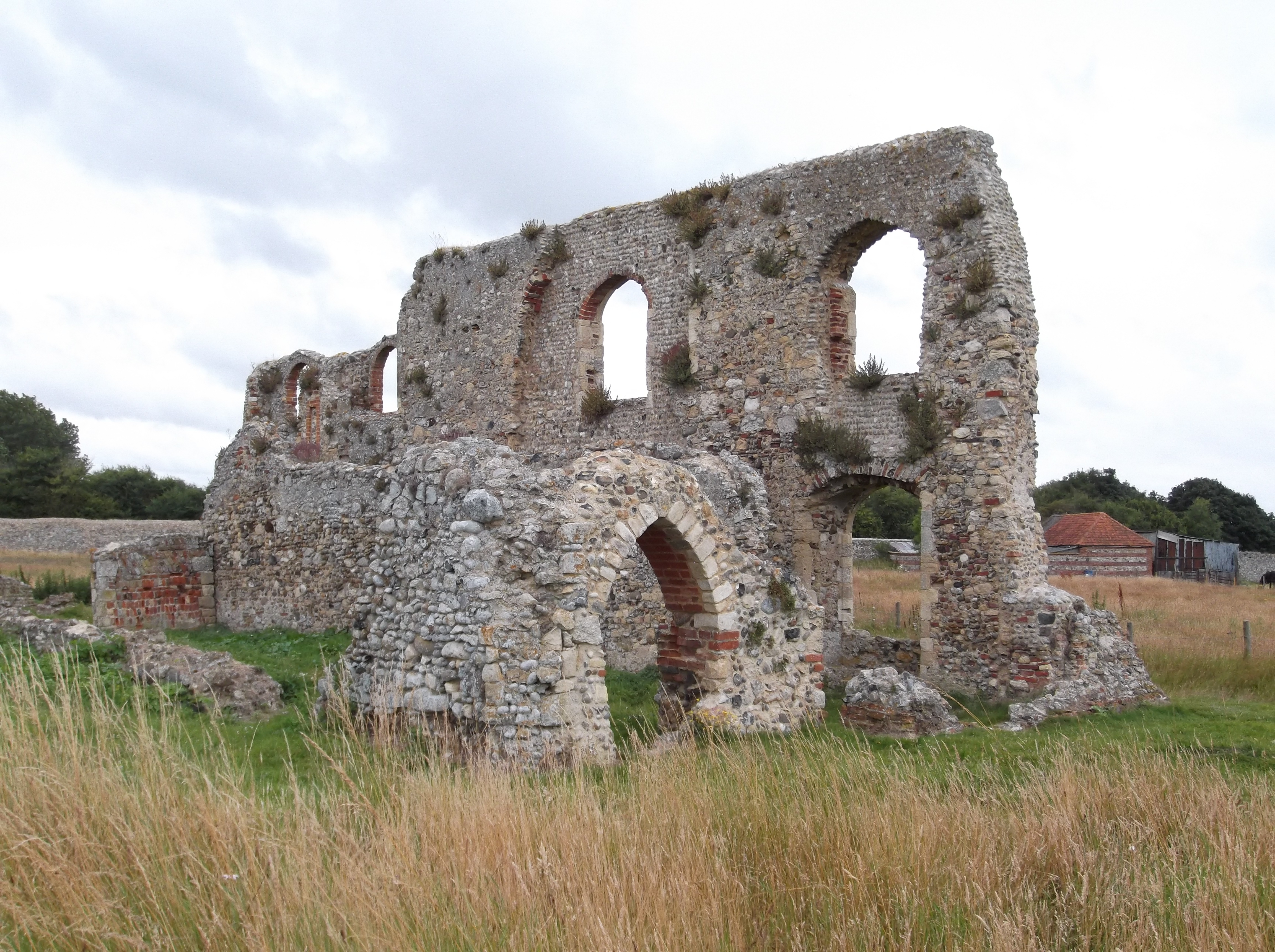 Ruin of the Franciscan friary at Dunwich, Suffolk